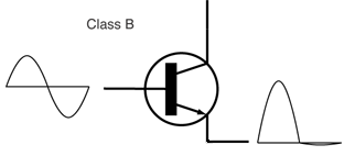 diagram of Class B amplifier, created for article. Fixed 31/05/2007 to match definition. The output signal was took from the collector and not the emitter. It resembled a class A amplifier, with a wrong output signal.